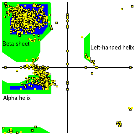 Ramachandran plot generated with coordinates from the human DNA clamp PCNA, PDB ID 1AXC, using VMD ([ and the Ramaplot extension